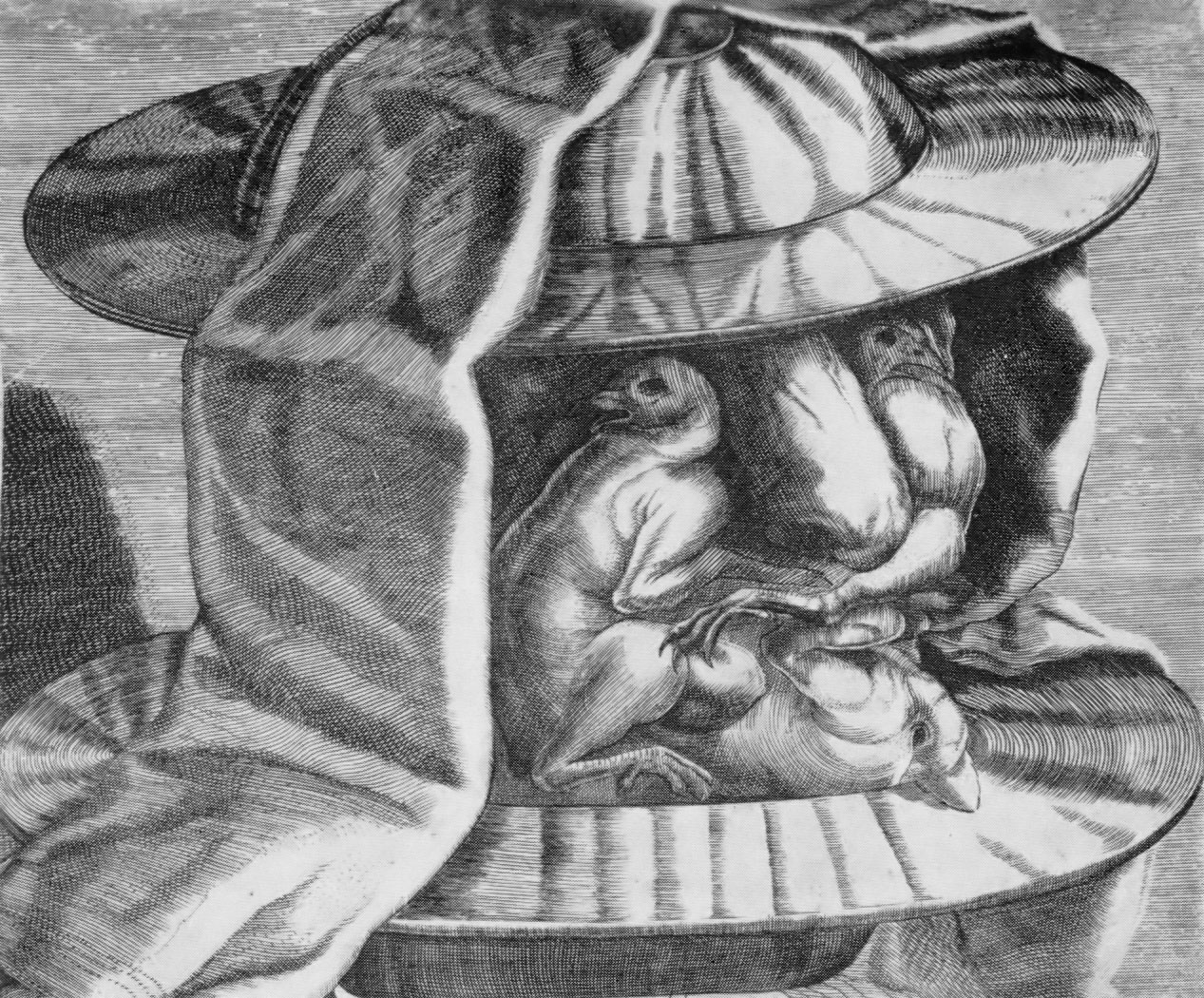 Engraving by Dominicus Custos